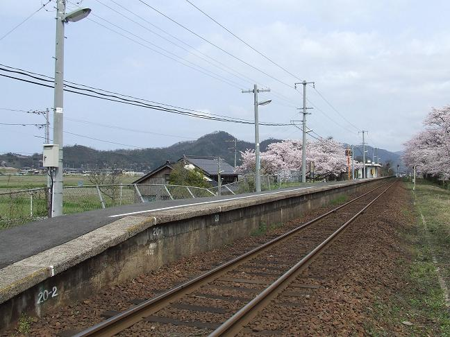 San'in Main Line Oiwa Station platform